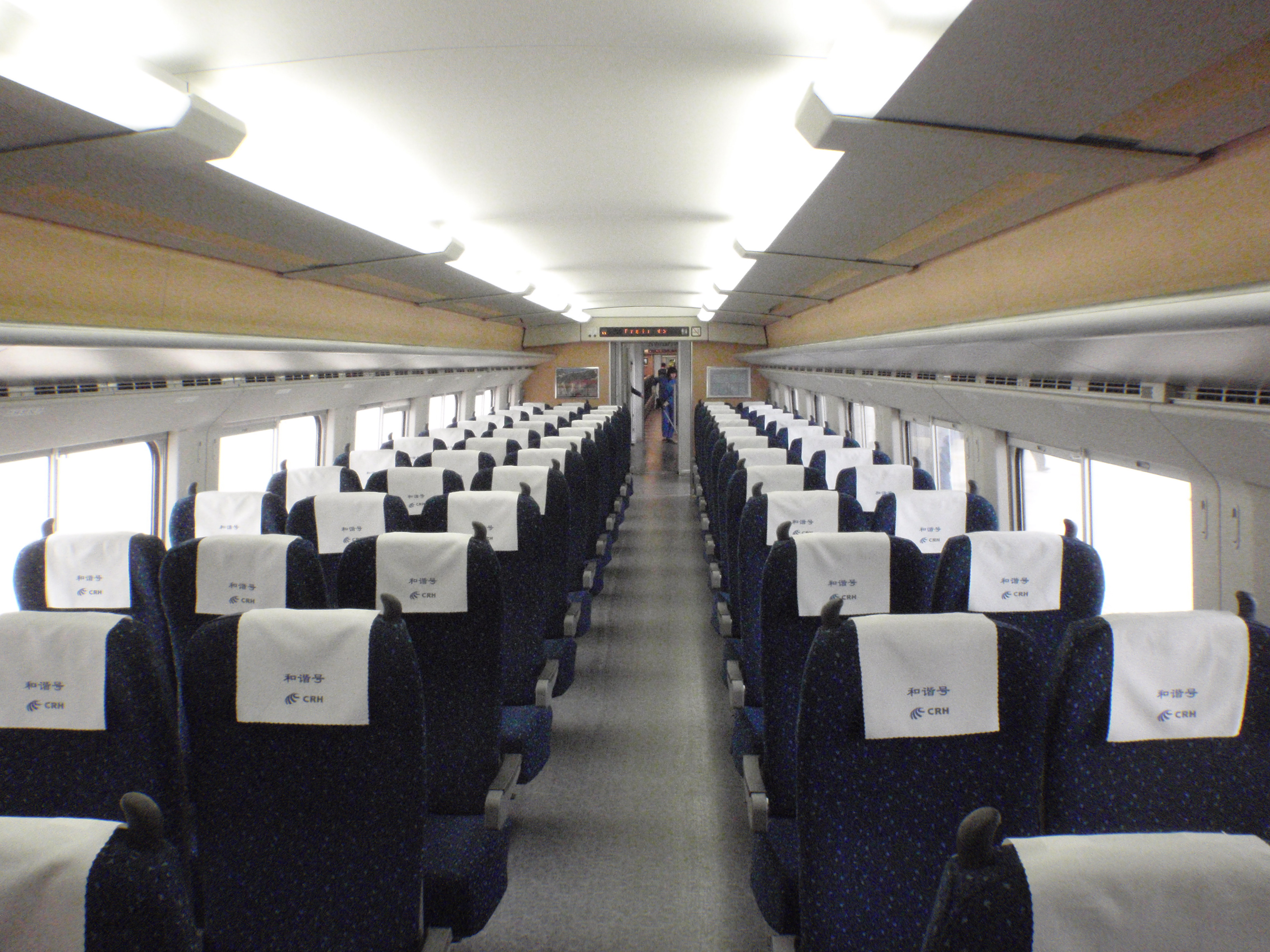 China Railway high-speed train CRH2 2nd class cabin interior, car No. ZE207300 (trainset No. CRH2-073C).